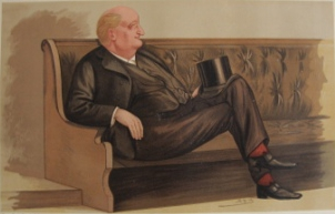 Caricature of Rt Hon JHA Macdonald CB QC MP JP DL. Caption read "The Lord Advocate".